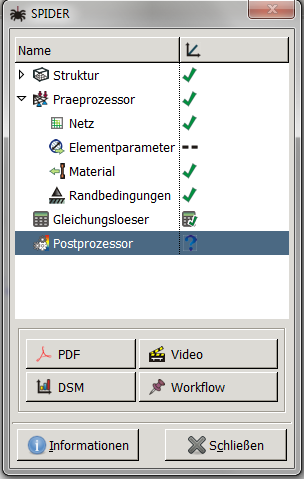 Workflow support tool within Z88Aurora, picture shows the process of work of my analysis